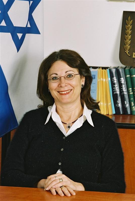 Esther Hayut justice of the supreme court of israel